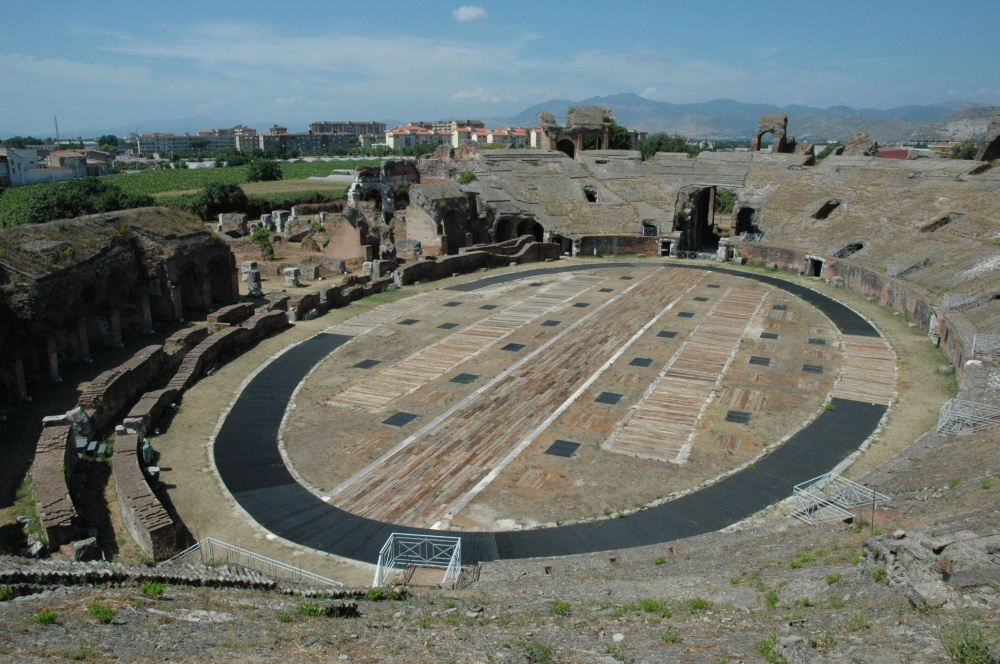 Anfiteatro, Santa Maria Capua Vetere, Campania, Italy.